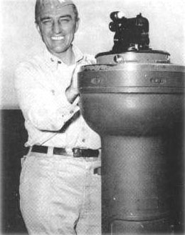 Thomas Lamison Sprague (October 2, 1894 – September 17, 1972) was an American admiral who served during World War II as commander of the USS Intrepid and took part in the battles of Guam, Leyte Gulf and Okinawa.